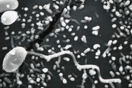 Scanning electron micrograph of a microsporidian spore with an extruded polar tubule inserted into a eukaryotic cell. The spore injects the infective sporoplasms through its polar tubule.